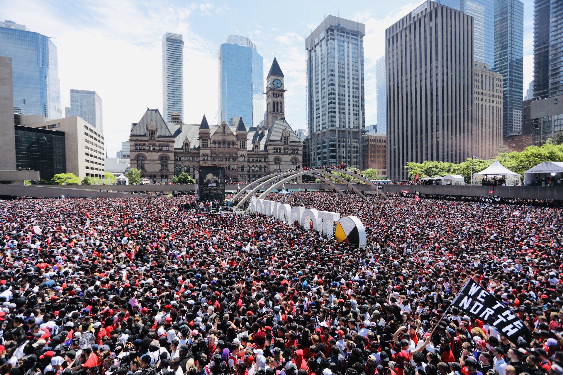 In Toronto celebrating the Raptors win!